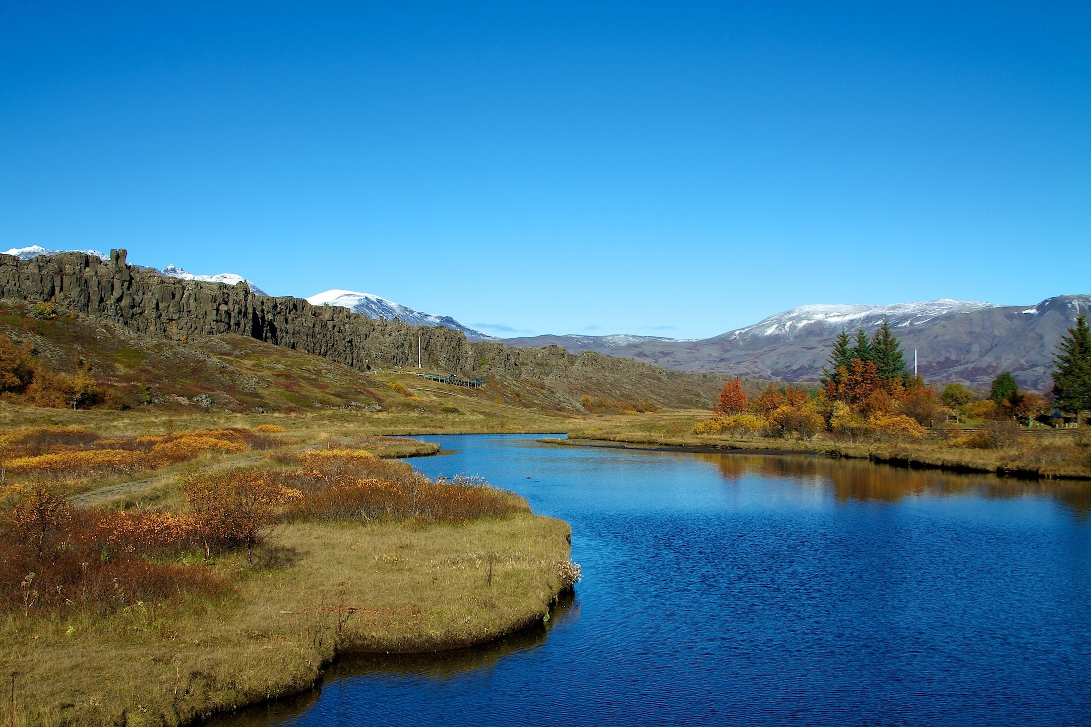 Landscape of Þingvellir (Thingvellir, Icelnad)